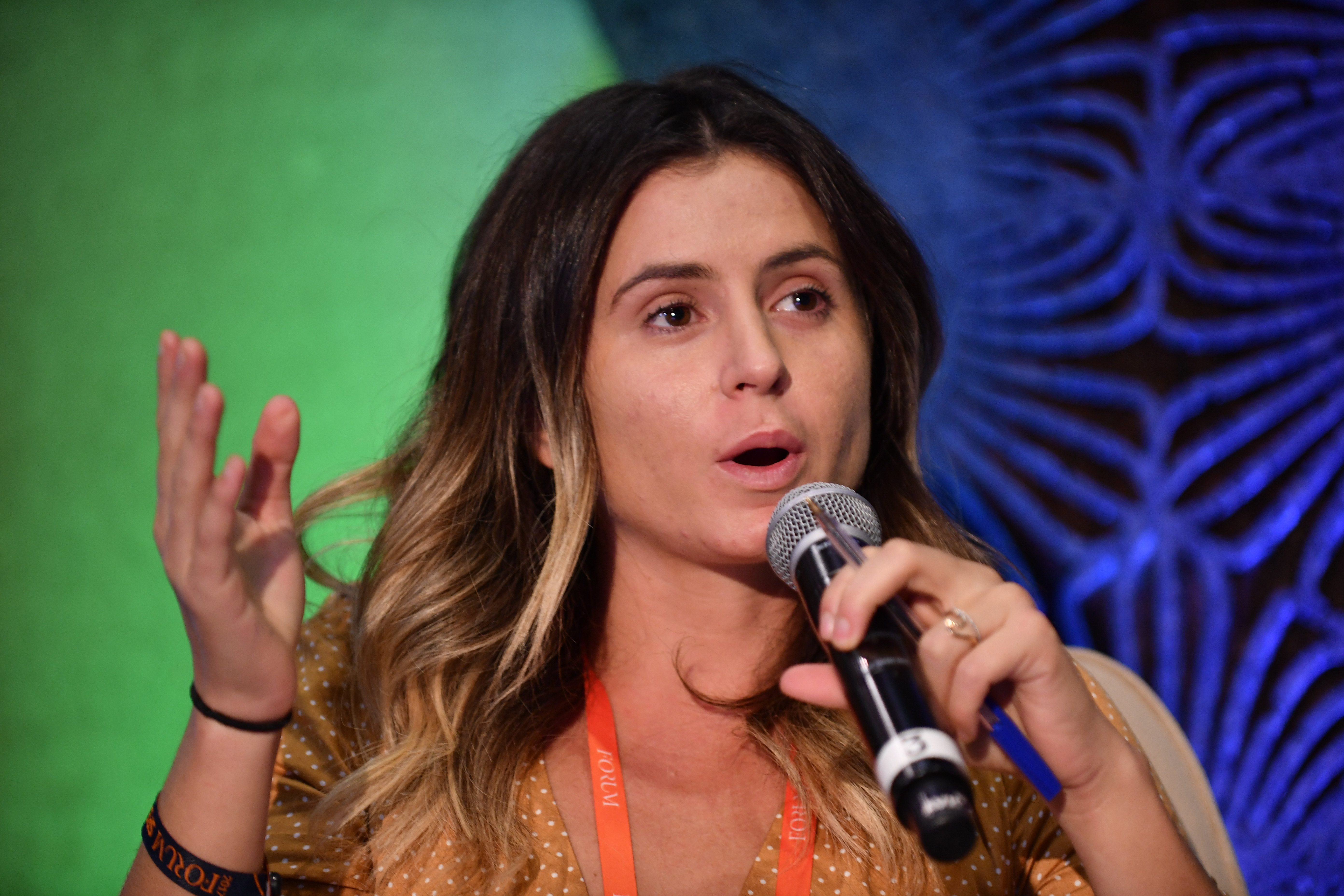 7 November 2017; Anastasia Ashley on the Pitch Stage during the opening day of Web Summit 2017 at Altice Arena in Lisbon. Photo by Sam Barnes/Web Summit via Sportsfile